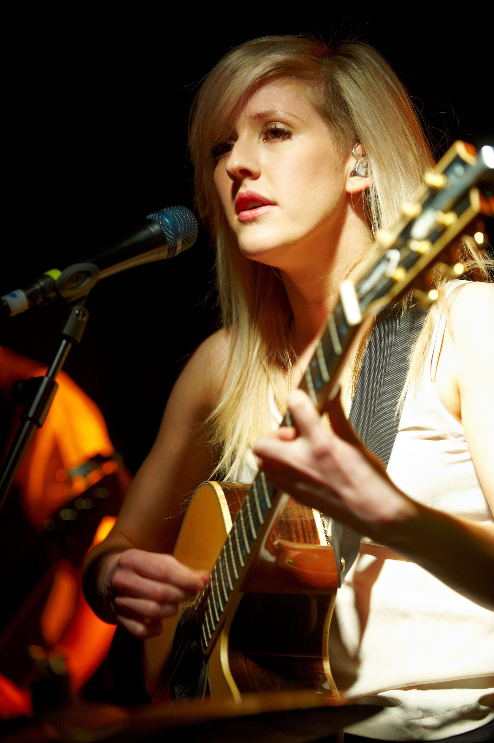 Ellie Goulding preforming live.